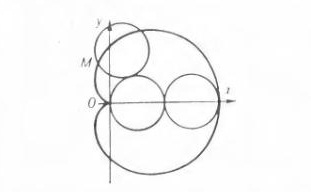 սրտարդ